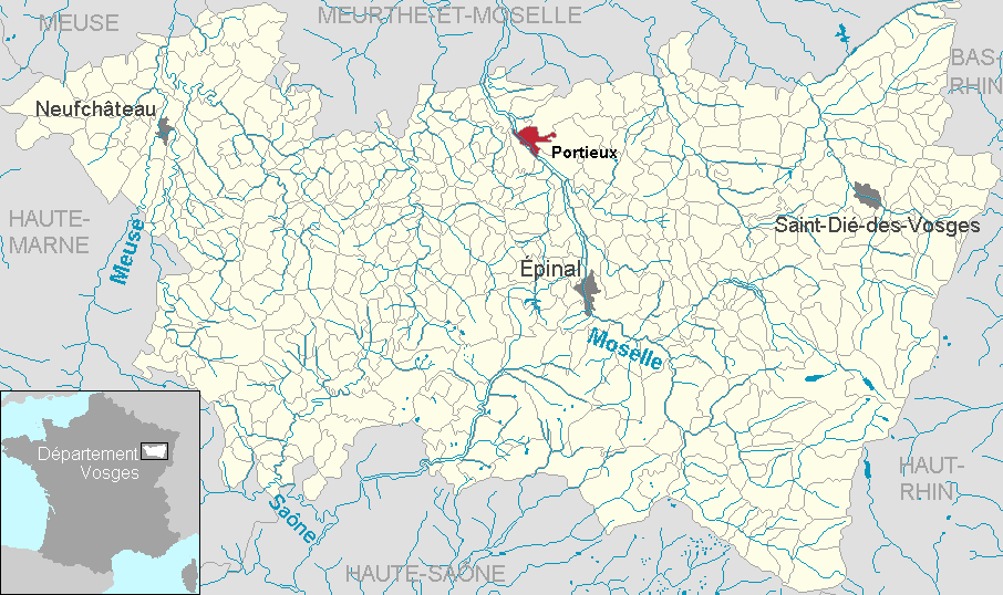 Portieux in the department of Vosges, Lorraine, France